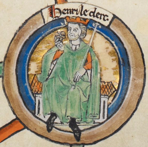 A portrait of Henry I, King of England depicted on folio 5r of Royal MS 14 B VI.